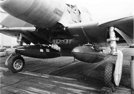 Boeing XF8B-1 illustrating external tank arrangement.